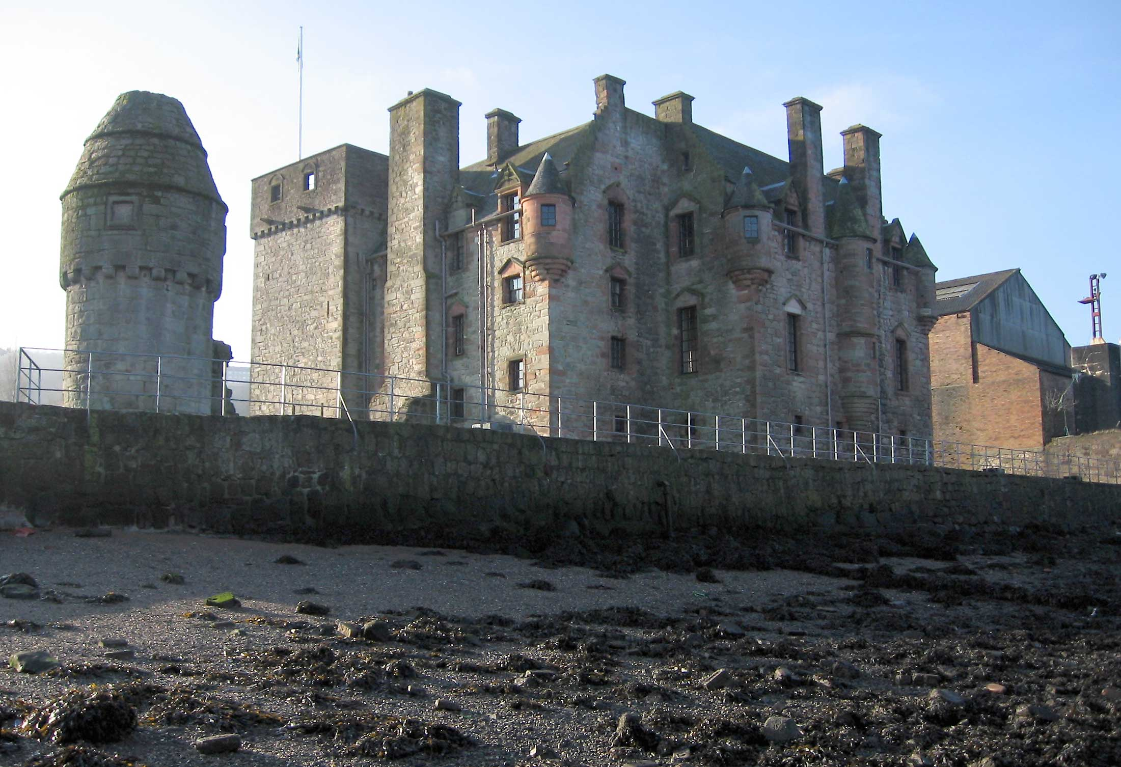 Newark Castle, Port Glasgow seen from the shore to its north east, showing the renaissance mansion with its west wing connecting to the original tower house, and to the left the doocot converted from a corner turret of the barmkin wall. photograph taken in February 2006 by User:Dave souza. Any re-use to contain this licence notice and to attribute the work to User:Dave souza at Wikipedia.